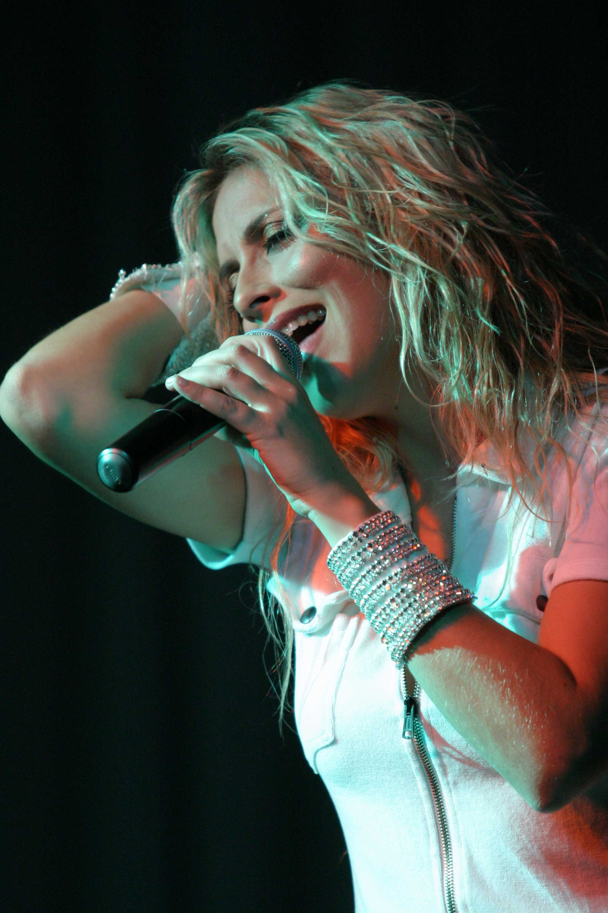 A photo captured during a concert in Spain